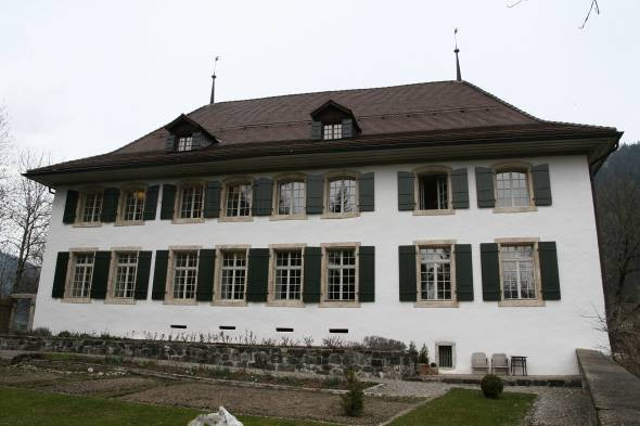 Blankenburg Castle seen from the south.